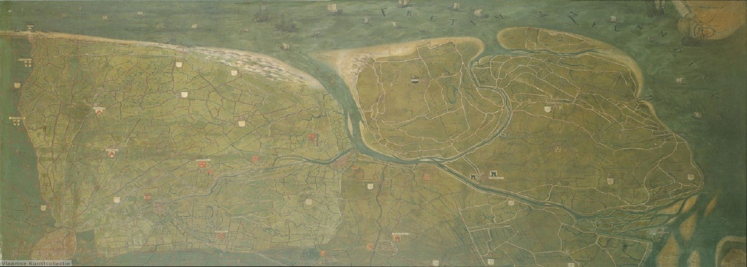 Map of Brugse Vrije, Pieter Porbus